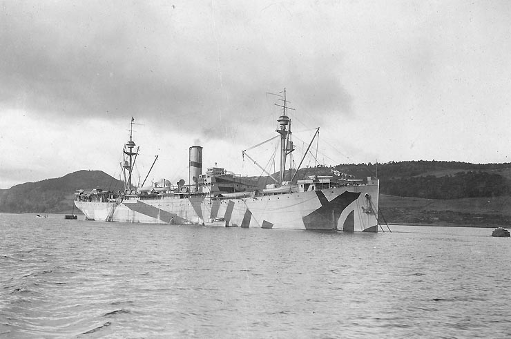 USS Black Hawk (ID-2140) moored at Inverness, Scotland, while serving as Mine Force repair ship and flagship. Note her pattern camouflage.